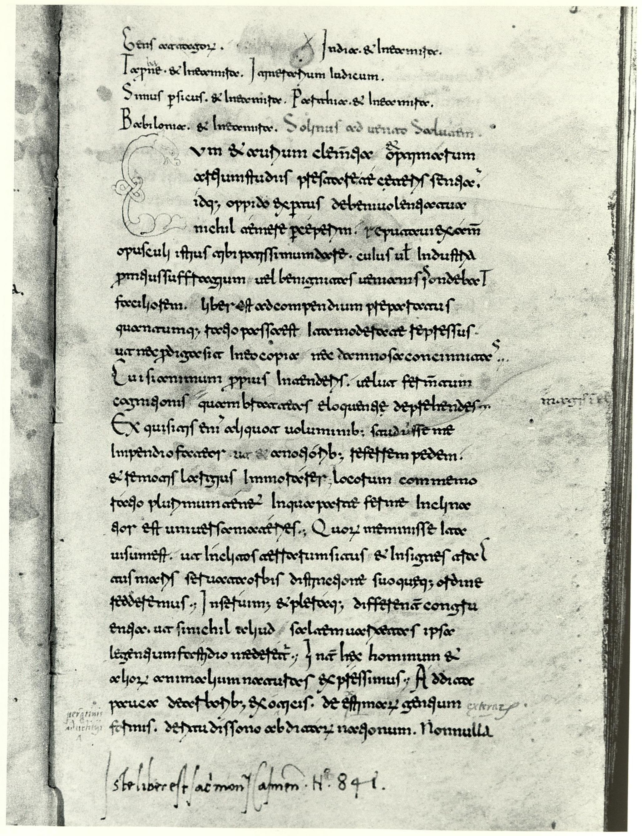 The beginning of the „Collectanea rerum memorabilium“ in the manuscript Monte Cassino, Archivio della Badia, 391, fol. 3r.